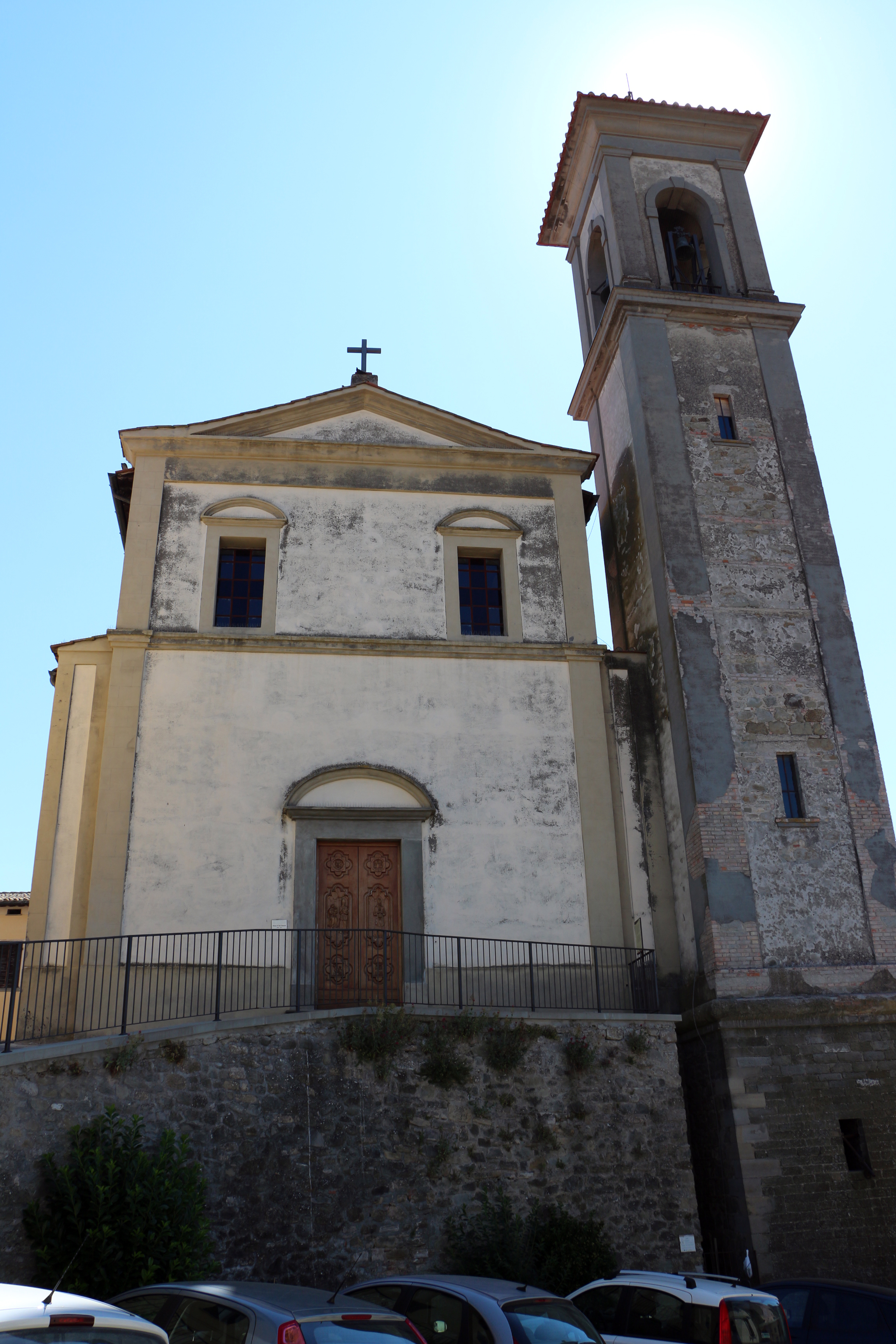 Monterchi